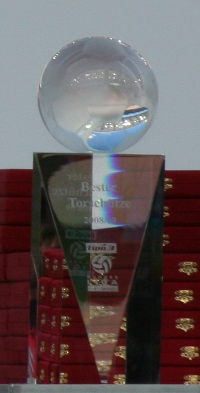 Trophy of the best goalscorer in the Austrian football Bundesliga's 2008-09 season